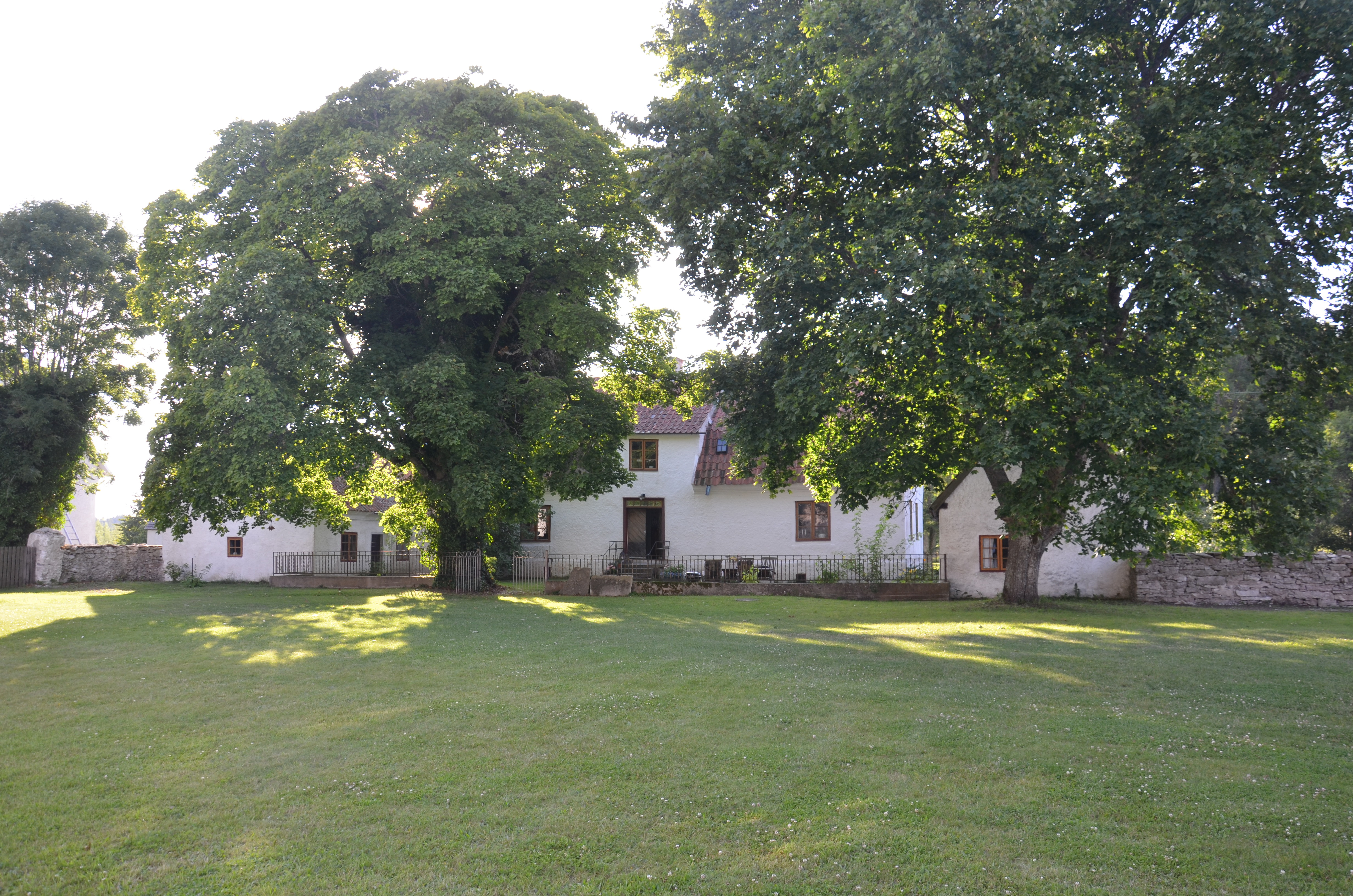 Hajdeby, Kräklingbo, Gotland, mellersta gården 01